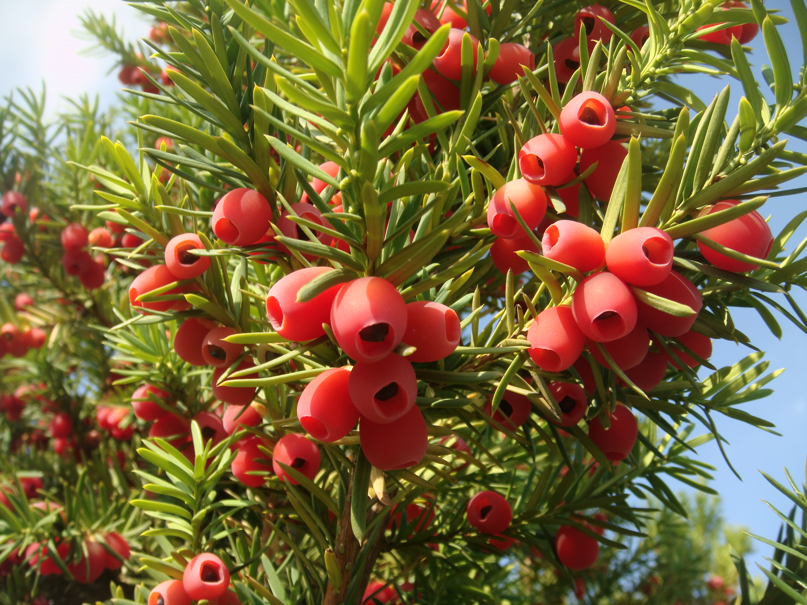 European yew. France